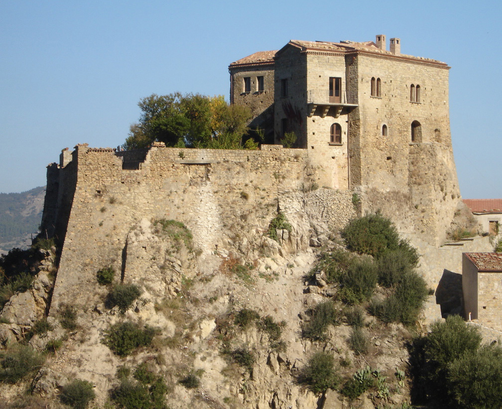 Veduta del Castello di Valsinni